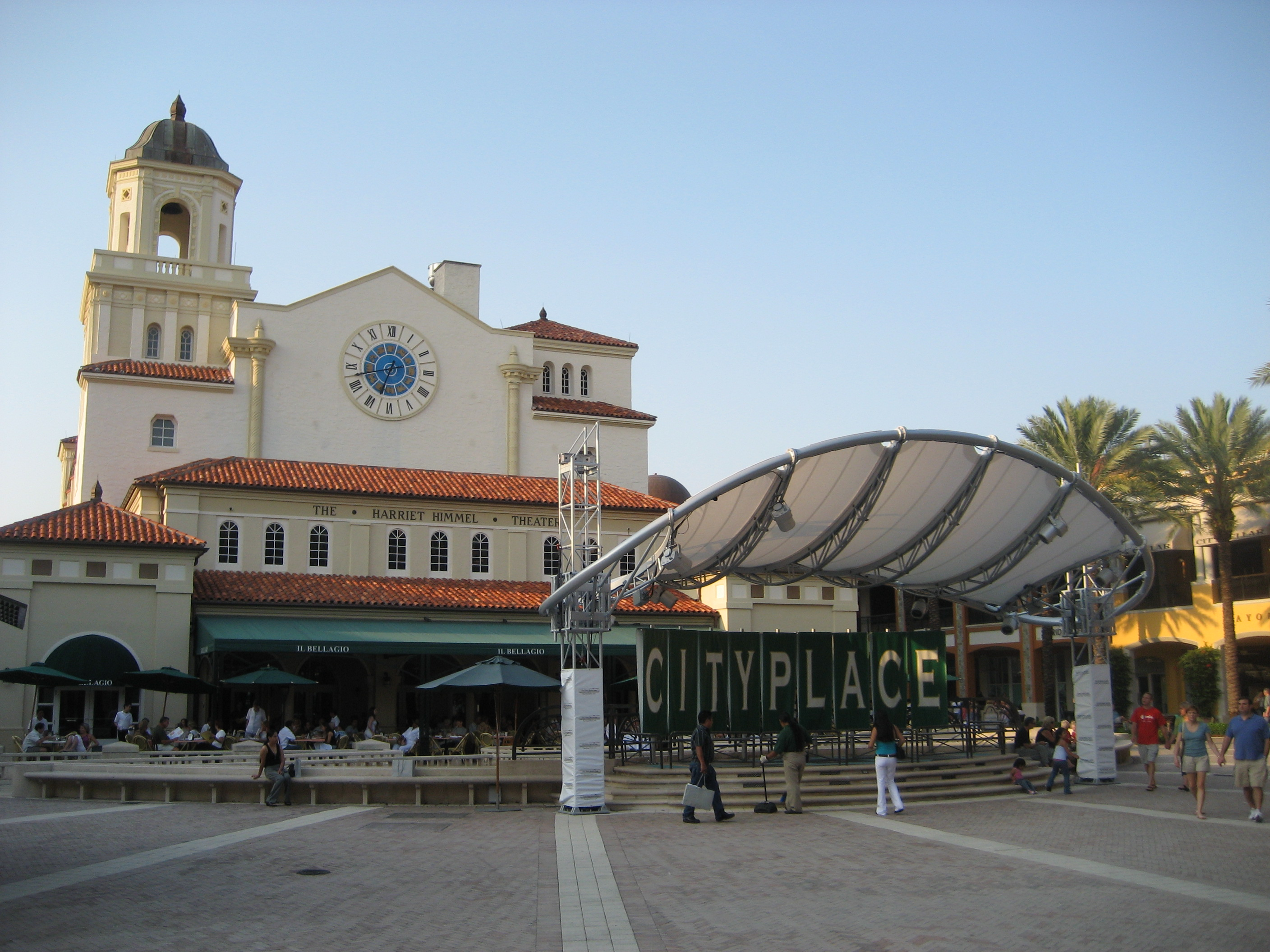 The live entertainment stage in CityPlace, located in Downtown West Palm Beach, Florida.